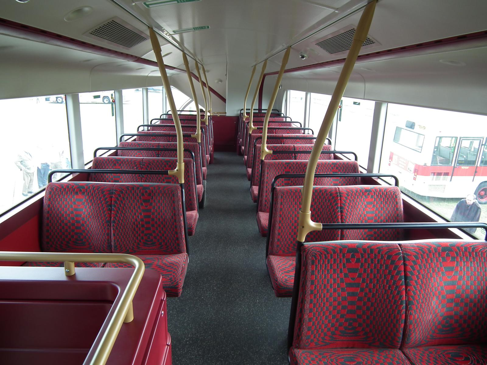 The upper deck interior of Arriva London LT7 (LT12 GHT), a Wright Routemaster known as the "New Bus For London". It is at Showbus 2012.